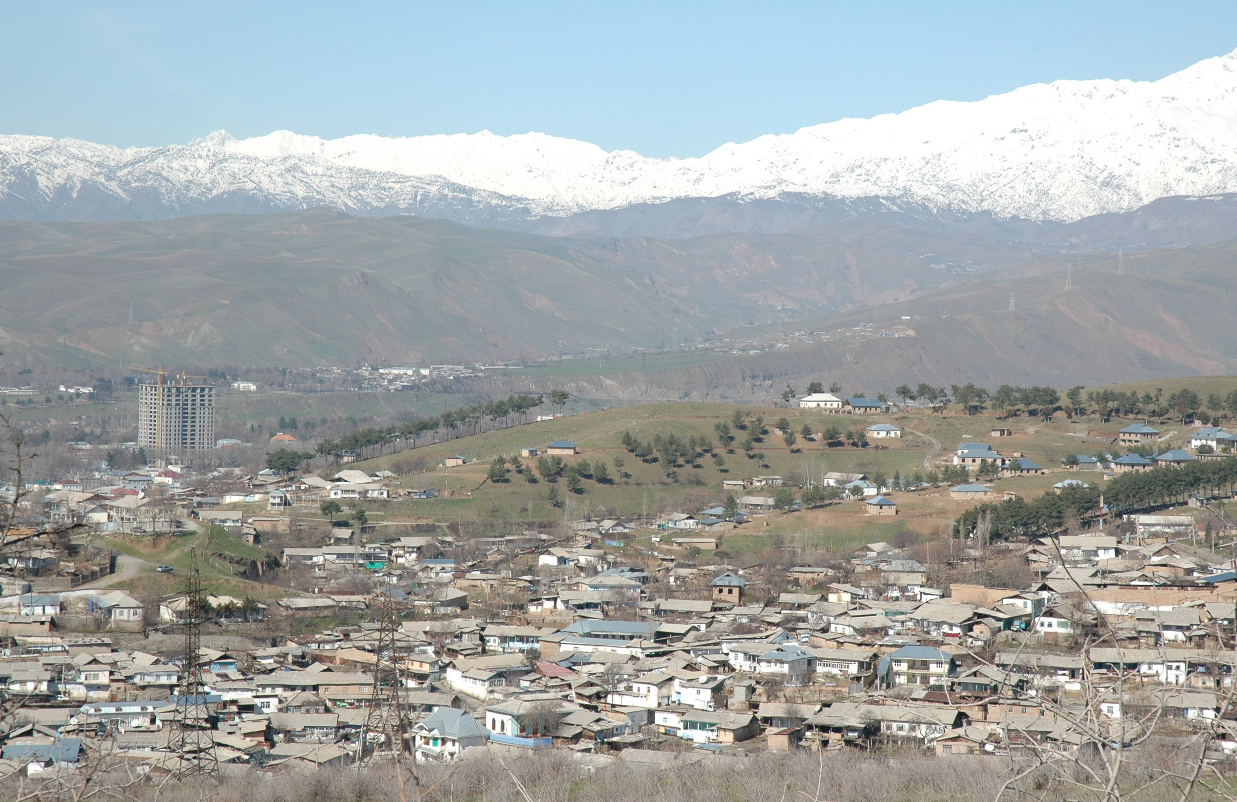 Panoramic view of Dushanbe